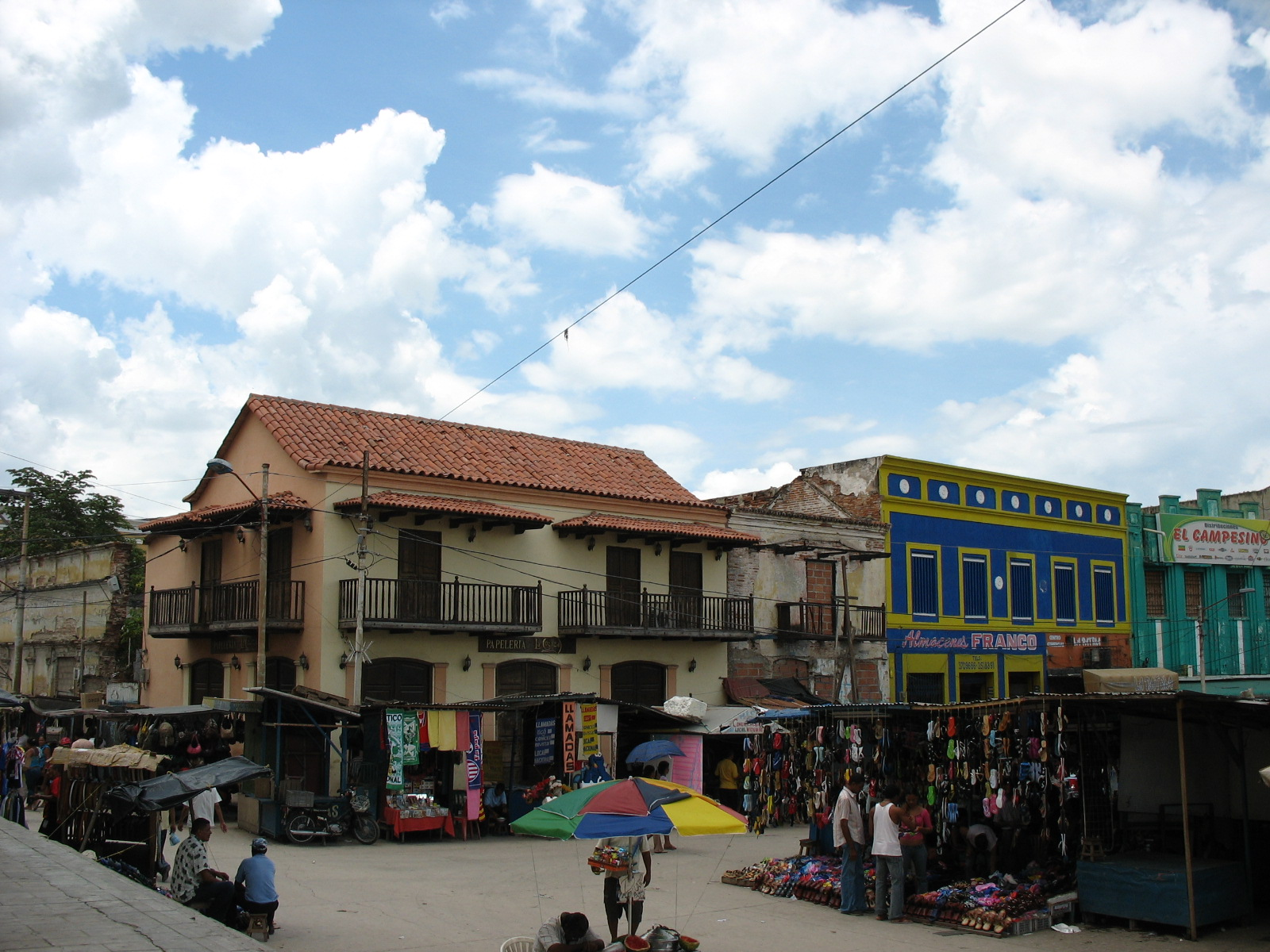 Barranquilla Lacorazza building